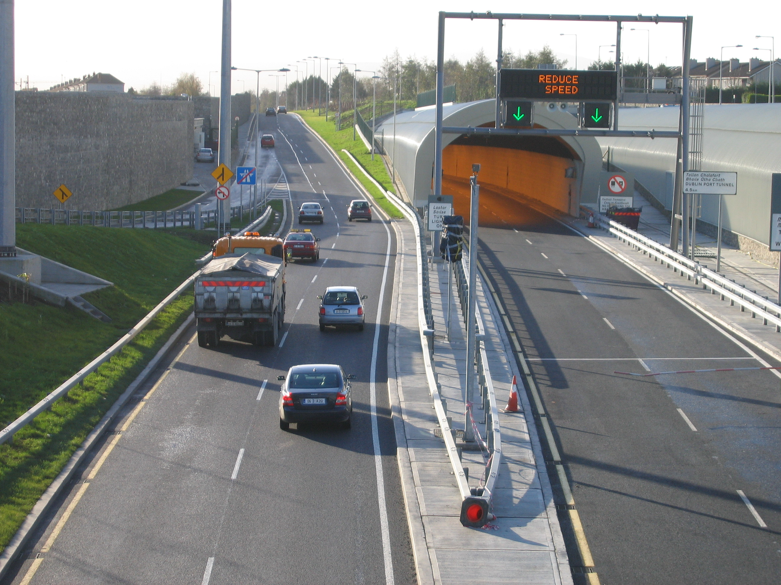 M50 Port Tunnel entrance southbound, Dublin, Republic of Ireland.